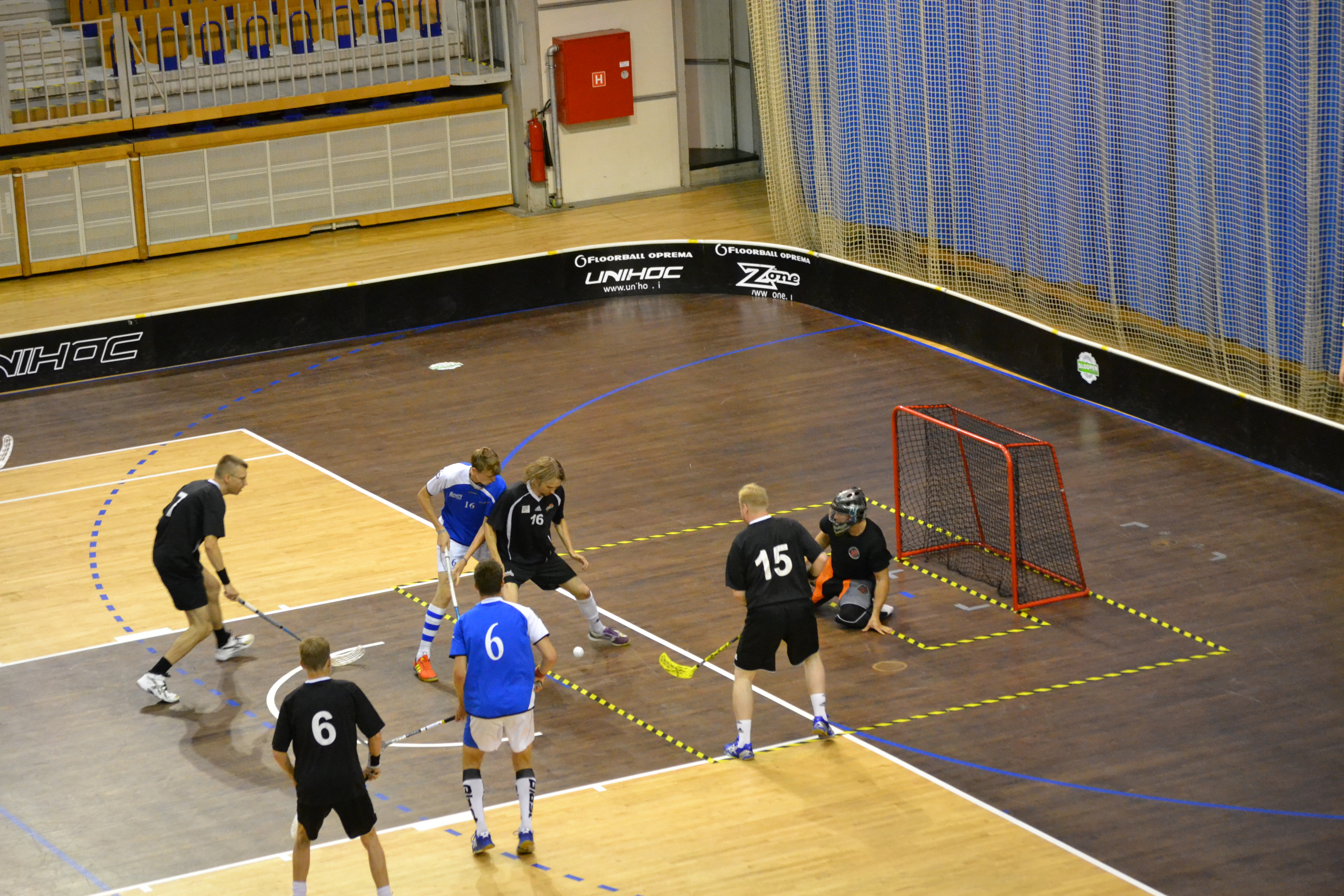 VSV Unihockey vs Downtown Tigers on Slo open 2012